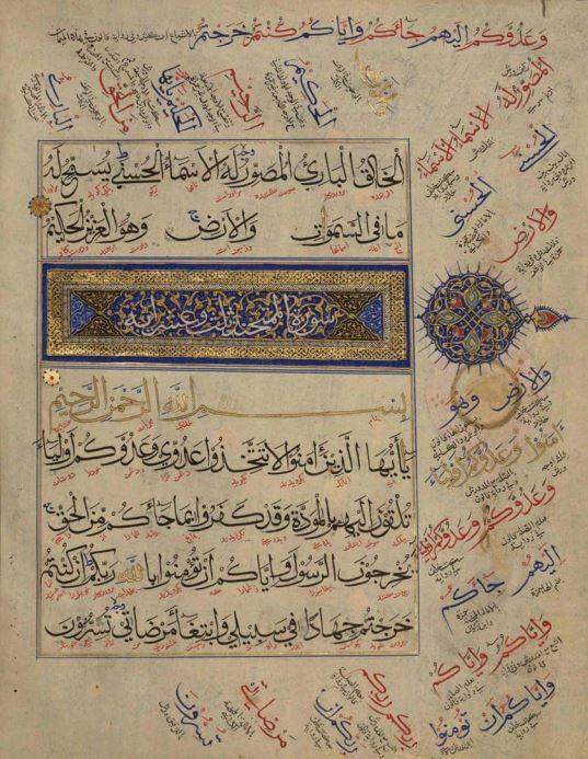 The start page of Surah al-Mumtahanah in a Timurid copy of the Quran, likely produced in 15th century northern India